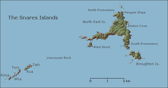 Snaresinseln (The Snares), Neuseeland Ort: 48° 01'S, 166° 34'O Author: Thomas Mattern Institution: Department of Zoology, University of Otago, Dunedin, New Zealand Lizenzstatus: GNU-FDL